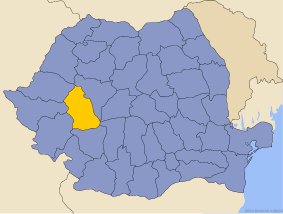 Location of Hunedoara County in Romania.